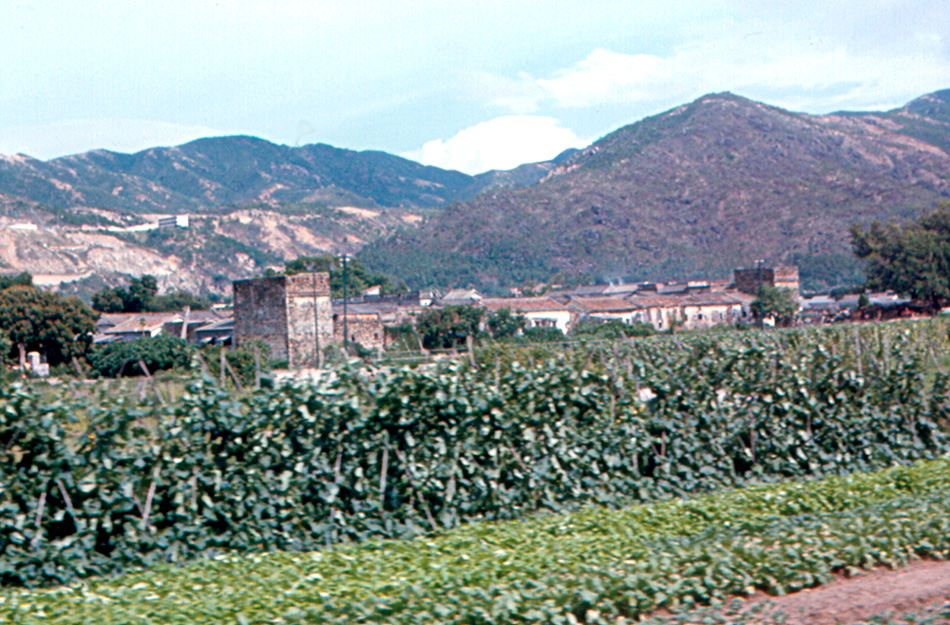 A walled village in the New Territories of Hong Kong, seen from the bus. The geotagged location is very approximate. Basically, it is somewhere in the New Territories, probably on the east side. Note: It is Nai Wai in Tuen Mun District. See almost identical photograph in Hayes, James (2006). The great difference: Hong Kong's New Territories and its people, 1898-2004. Hong Kong University Press. ISBN 9789622097940.